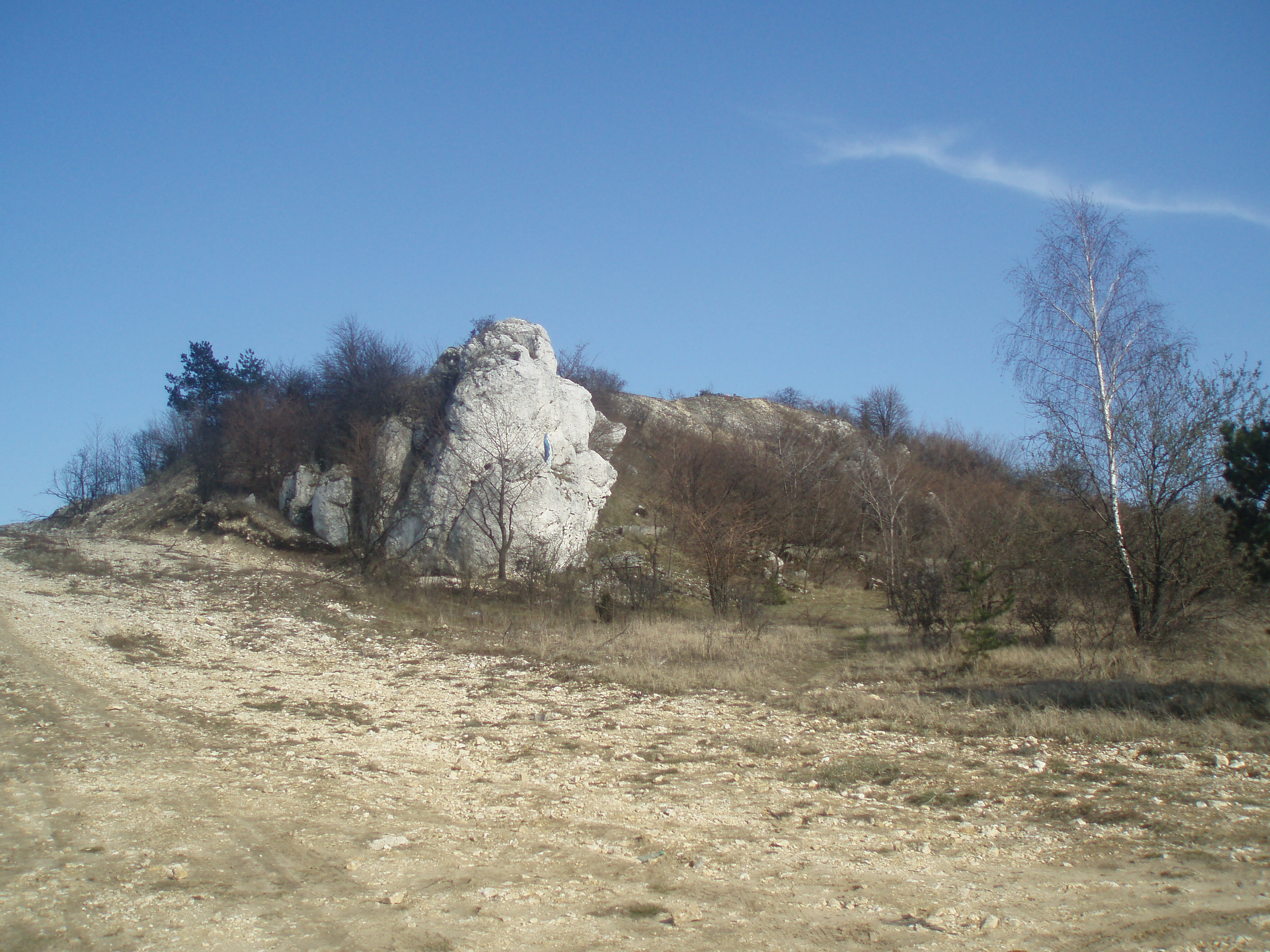 Góra Ossona w Częstochowie